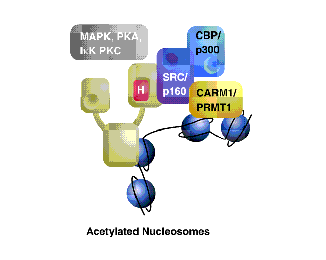 Diagram of various coregulators recruited by a nuclear receptor to a promoter, causing local nucleosomal condensation. Coregulator function can be influenced by a variety of afferent kinase-mediated signaling pathways.